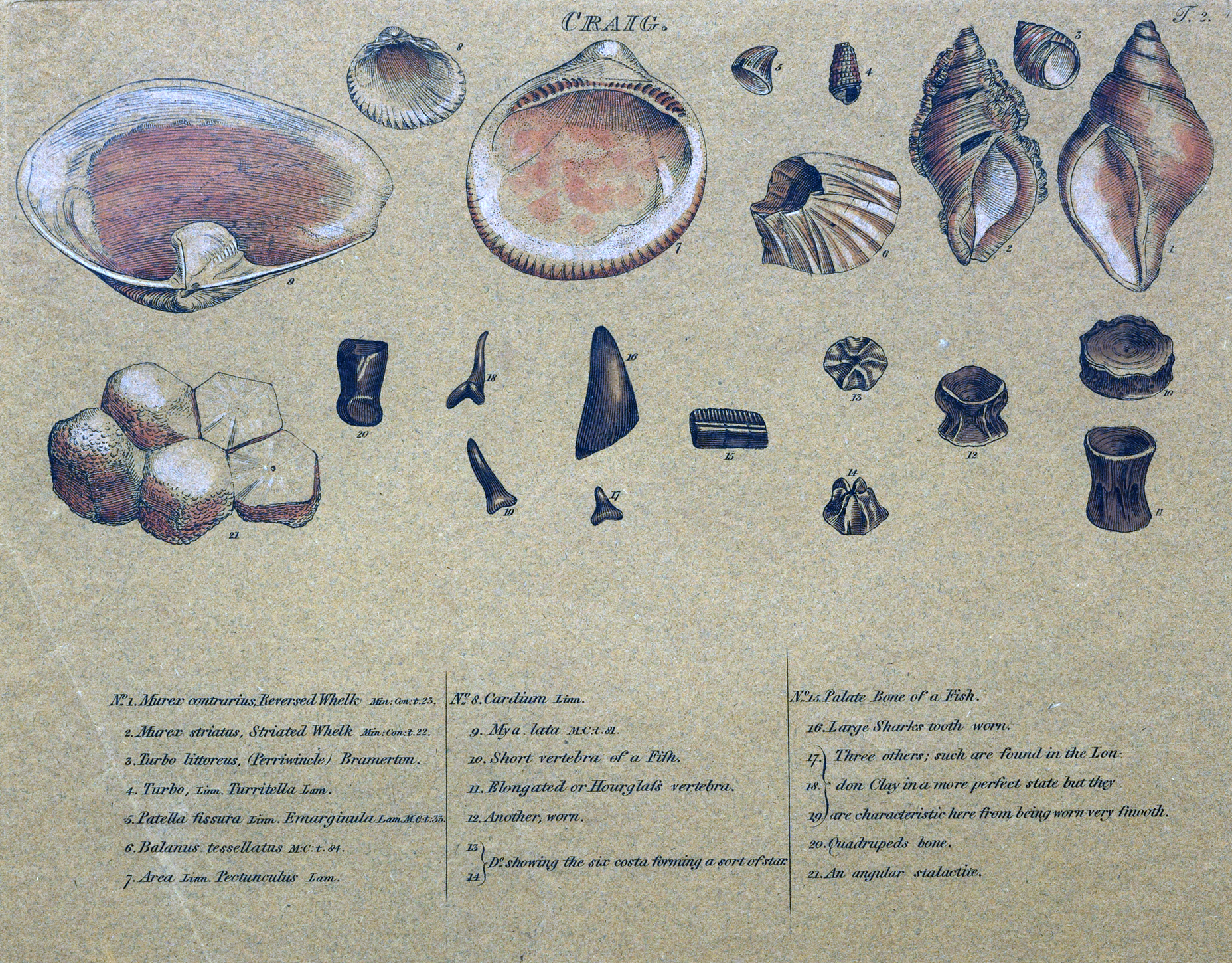 Historical plate showing fossils that characterize the “Cra(i)g” (apparently a sandy facies of ?upper Cenozoic deposits) of England. This plate comes from the fundamental biostratigraphical work of the pioneer of modern Geology William Smith. Note that the names of the fossil taxa may have changed since, mainly in a way, that the historical genus concepts subsequently changed over to family or even higher-ranked taxa.